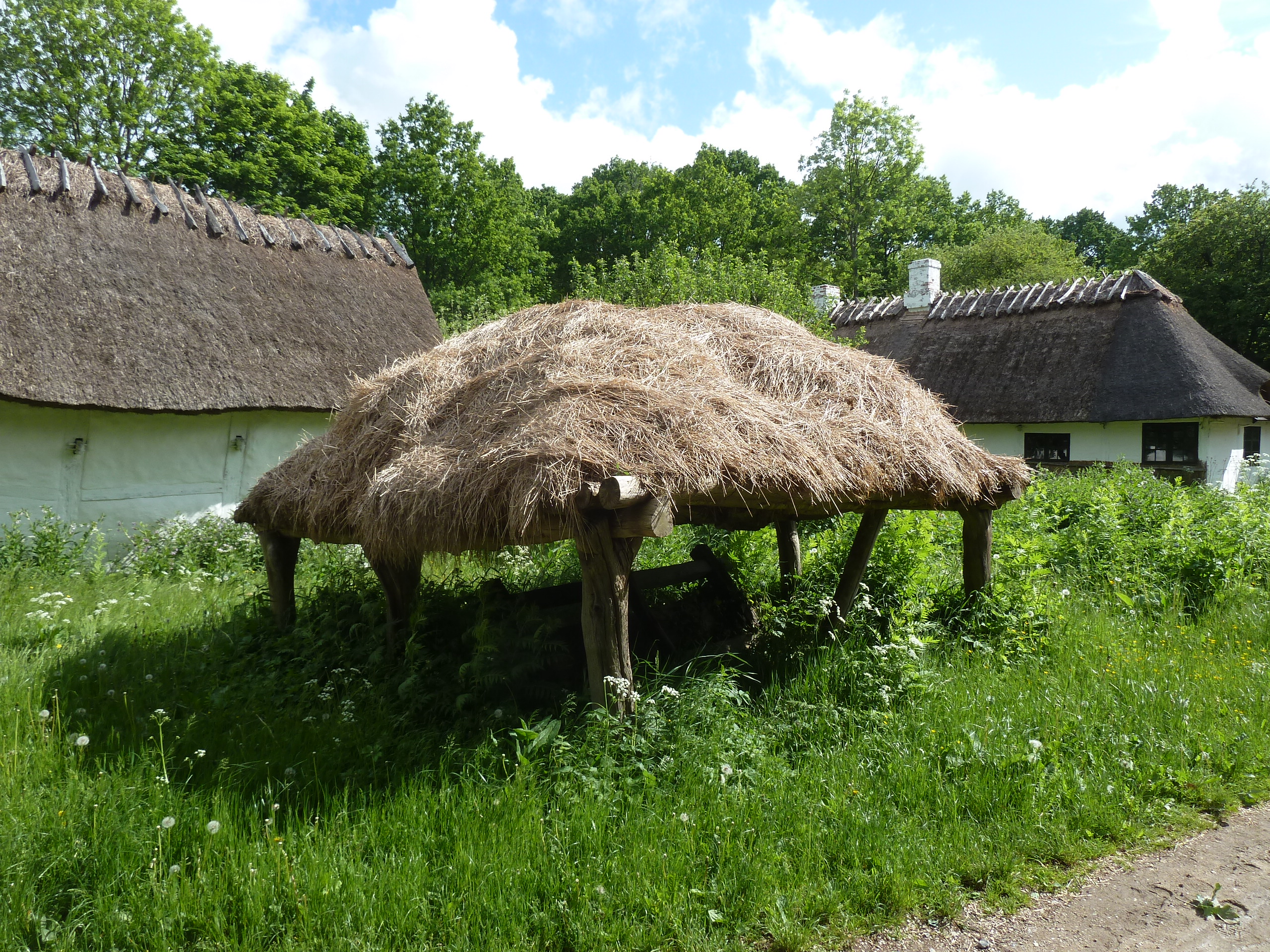 Farm from Pebringe, Sjælland, now on Frilandsmuseet (the open air museum) north of Copenhagen.